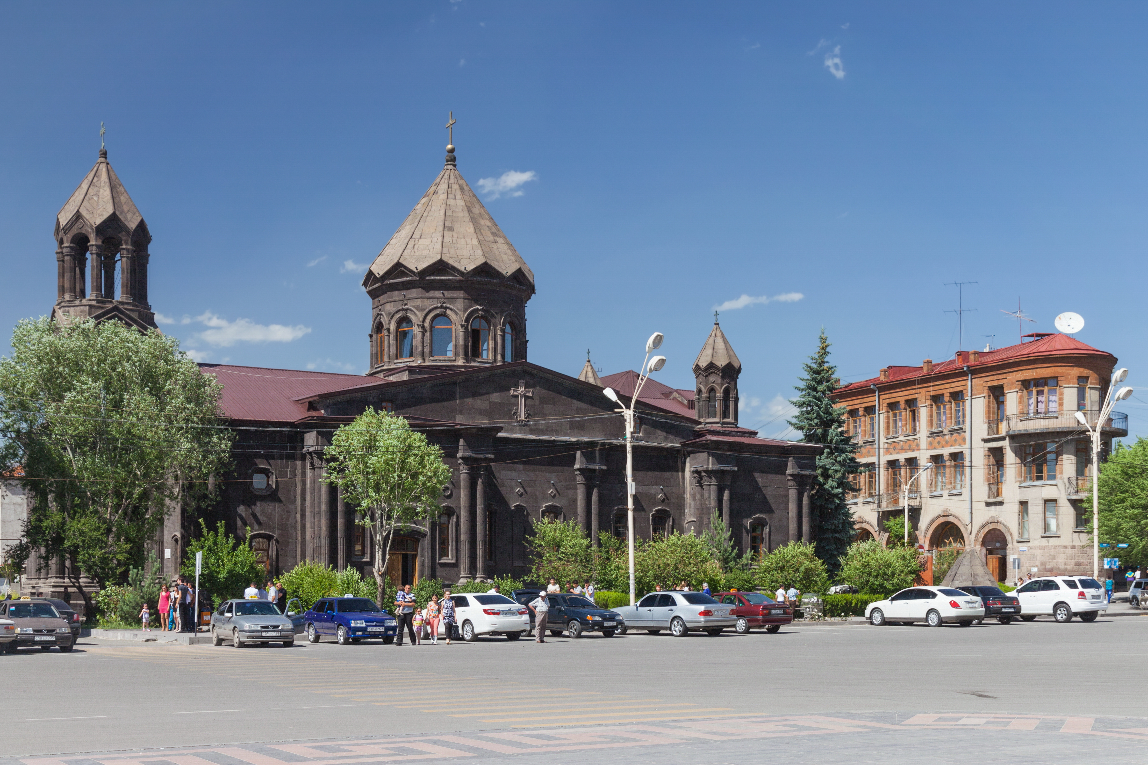 Holy Mother of God Cathedral. Gyumri, Shirak Province, Armenia.